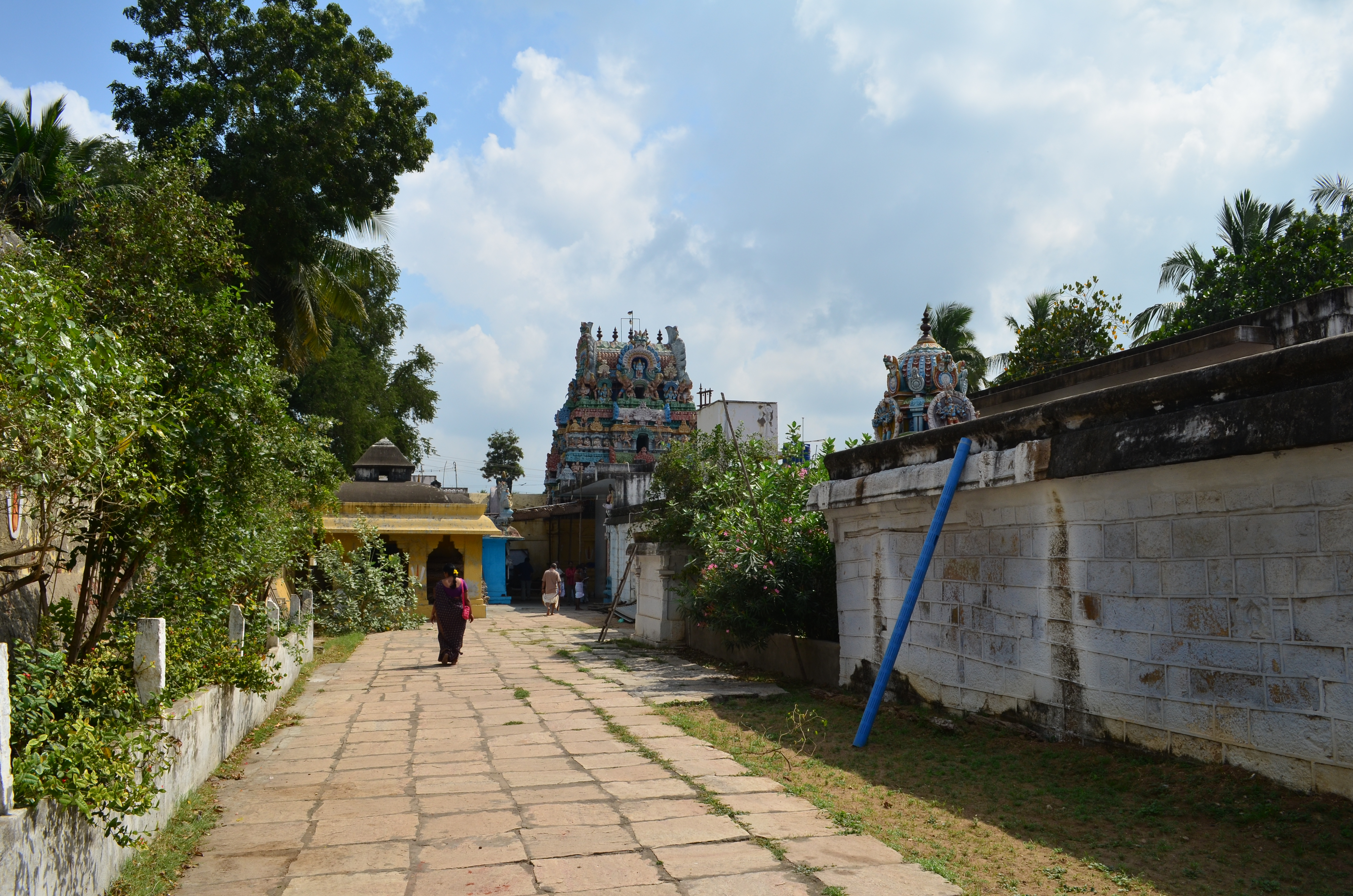 Inside the Hara Sabha Vimochana Perumal Temple